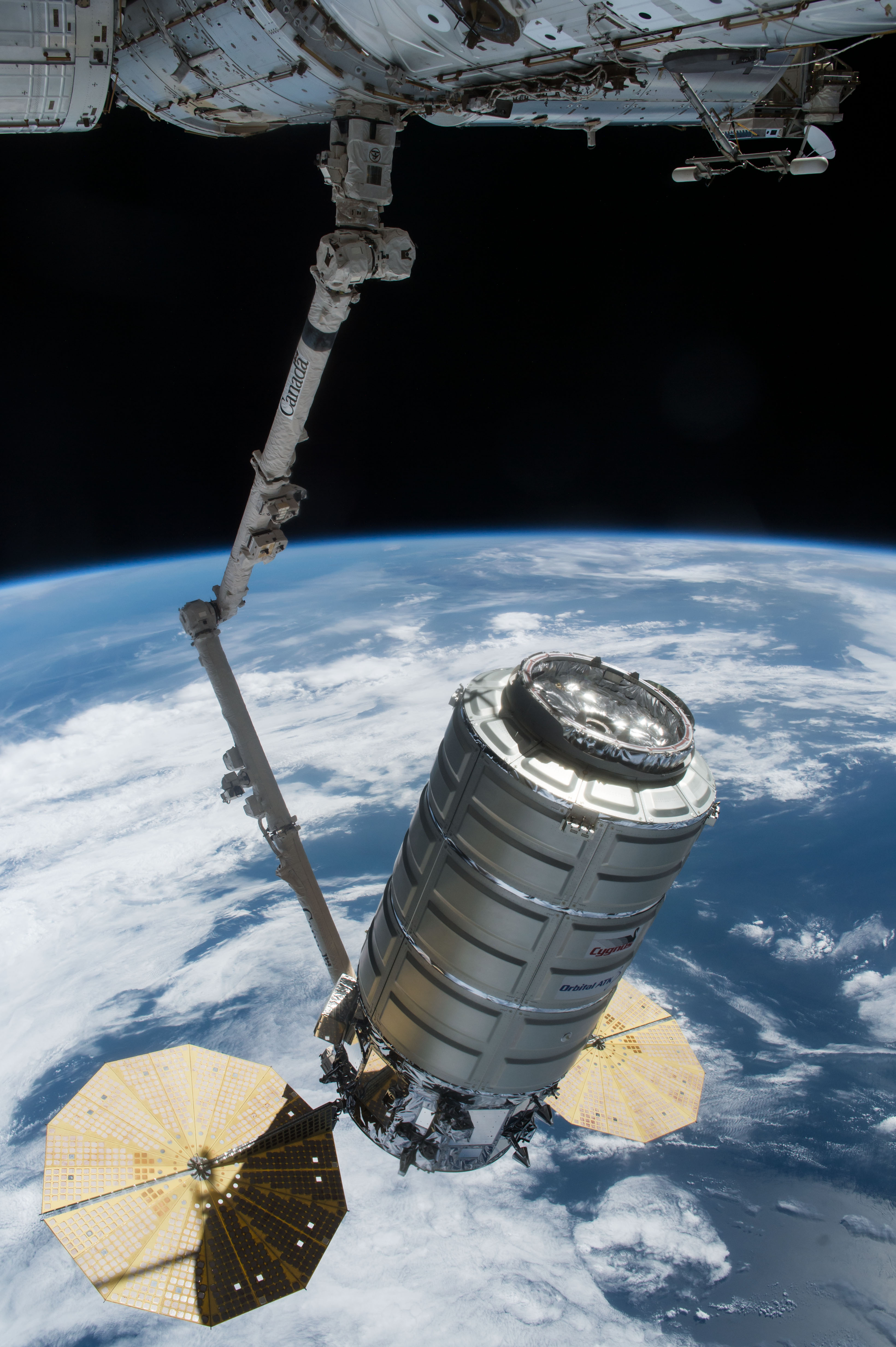 The Cygnus resupply ship from Orbital ATK is remotely guided to its port on the Unity module by ground controllers using the Canadarm2 robotic arm.